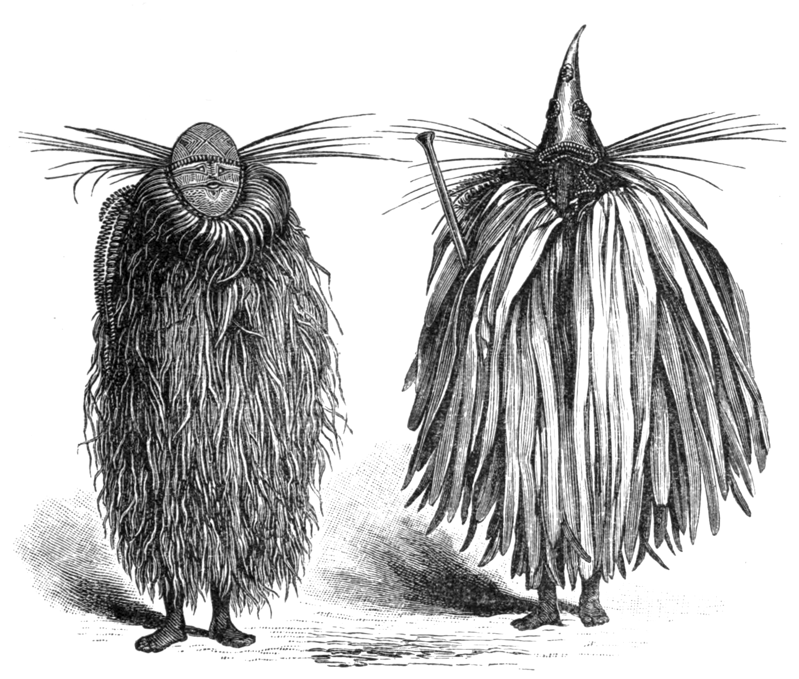 Masked Dancers at Aurora.